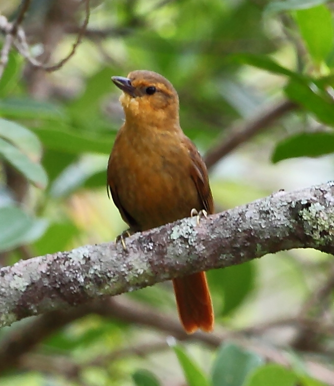 Planalto foliage-gleaner at Serra da Canastra National Park - MG - Brazil